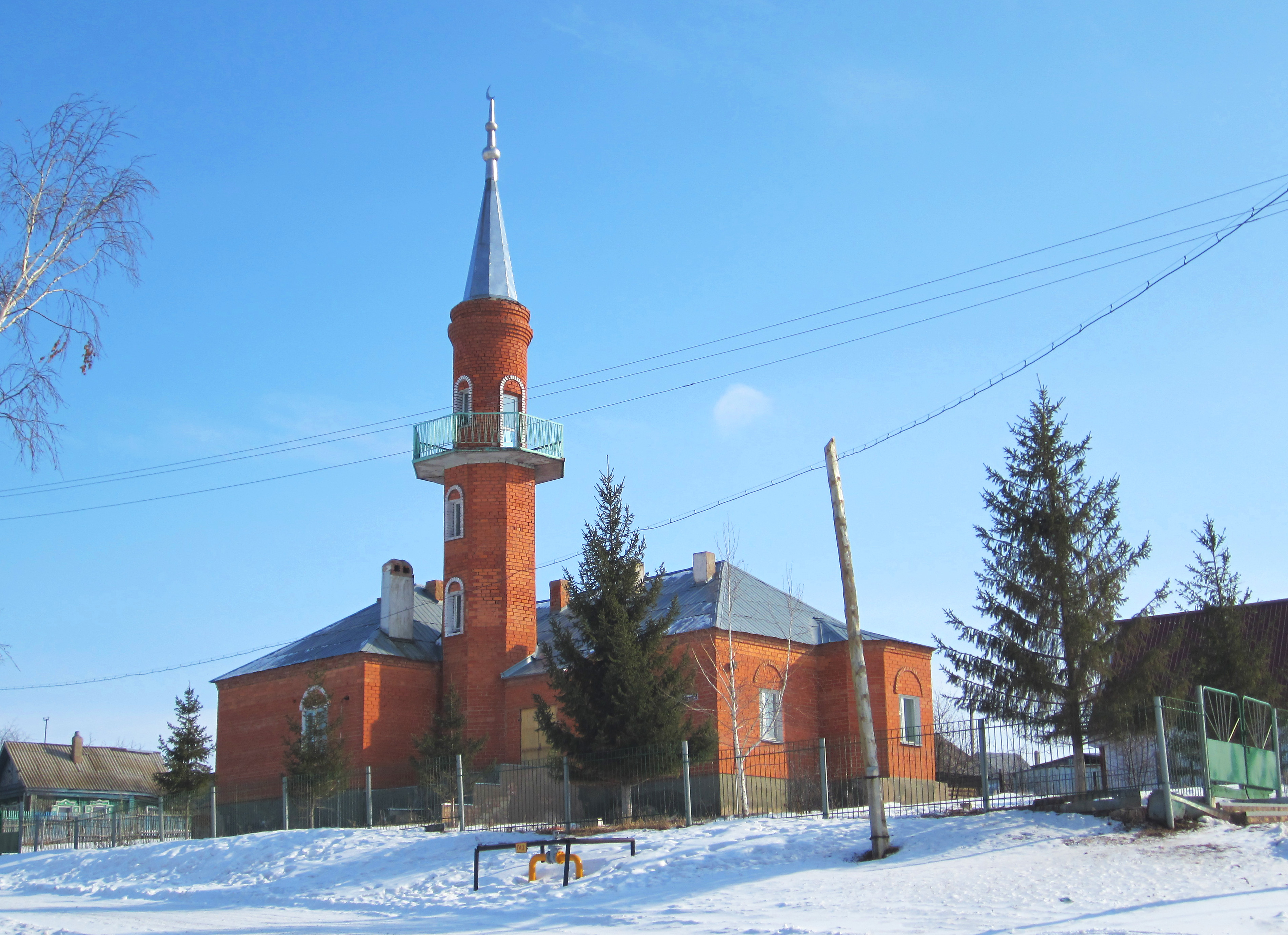 Mosque in Termen'-Elga, Ishimbay